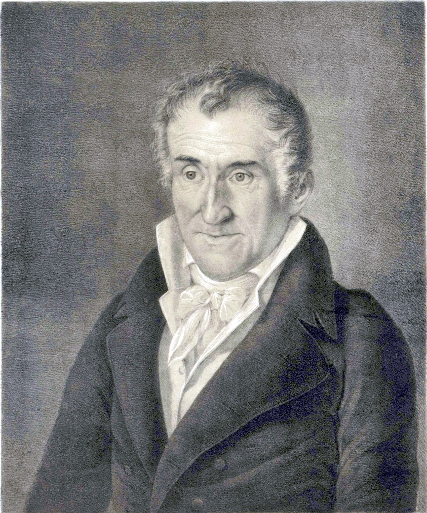 August von Kotzebue (1761–1819)